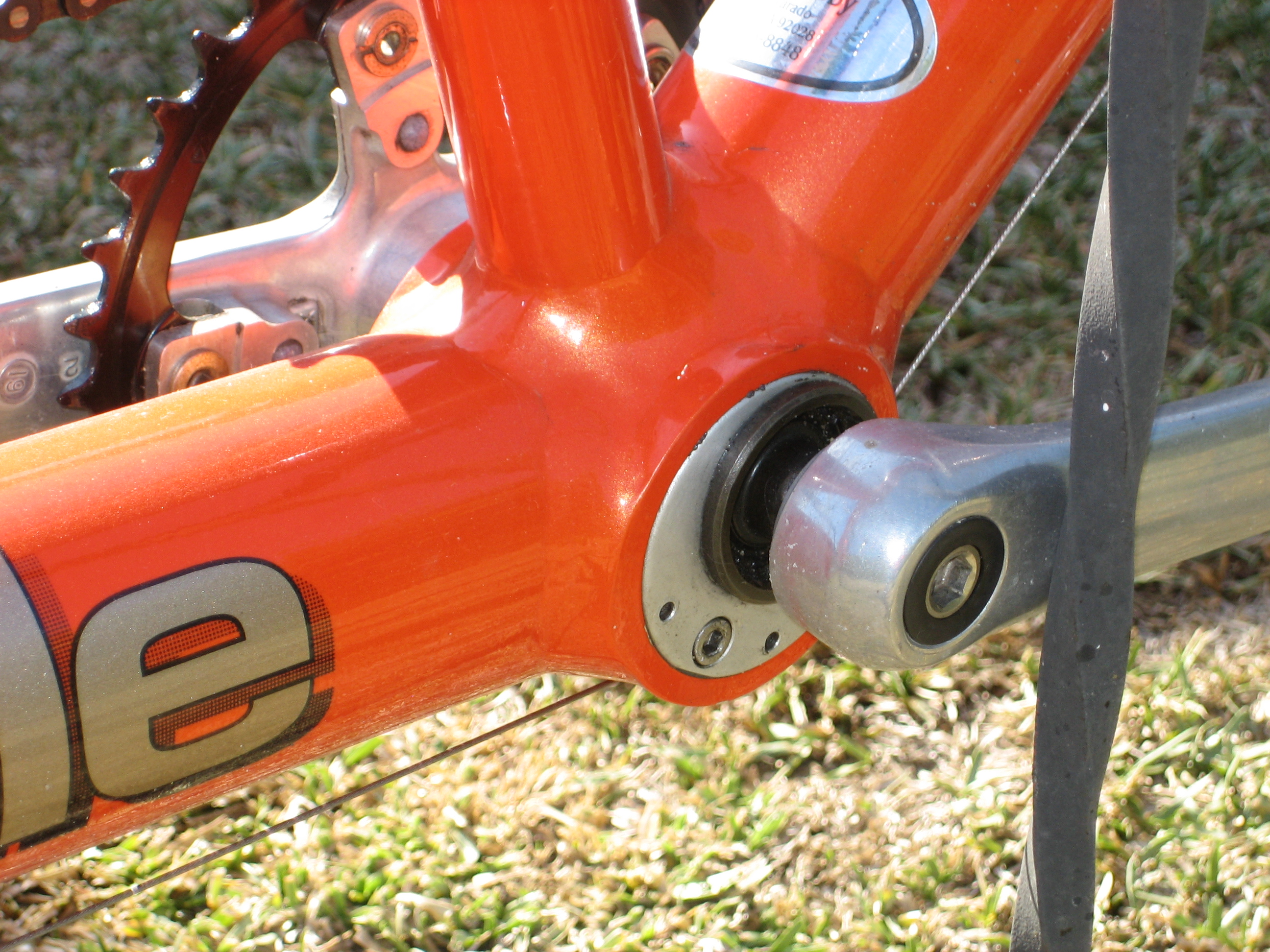 Tandem bicycle with an eccentric bottom bracket